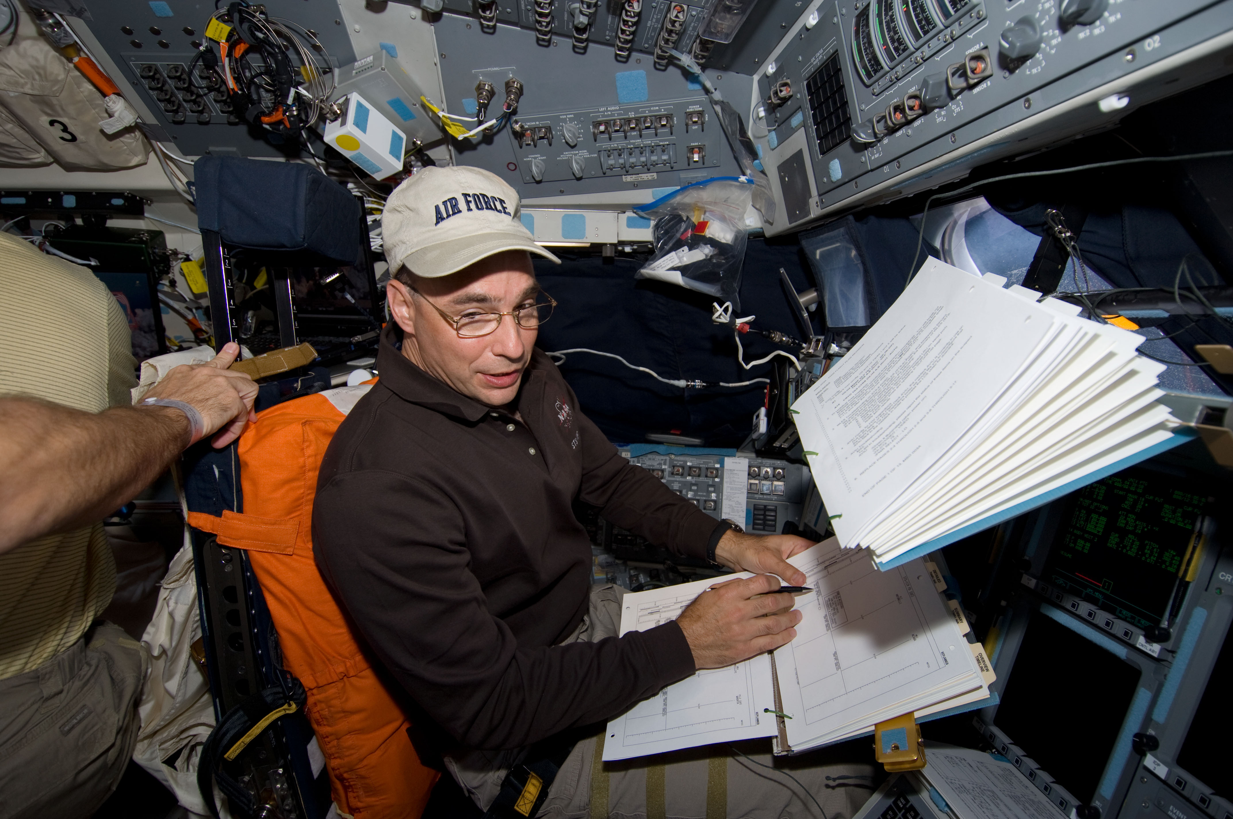 Lee Archambault going over a check list on the shuttle flight deck. Astronaut Lee Archambault, STS-119 commander, looks over checklists while occupying the commander's station on the flight deck of Space Shuttle Discovery during flight day two activities.